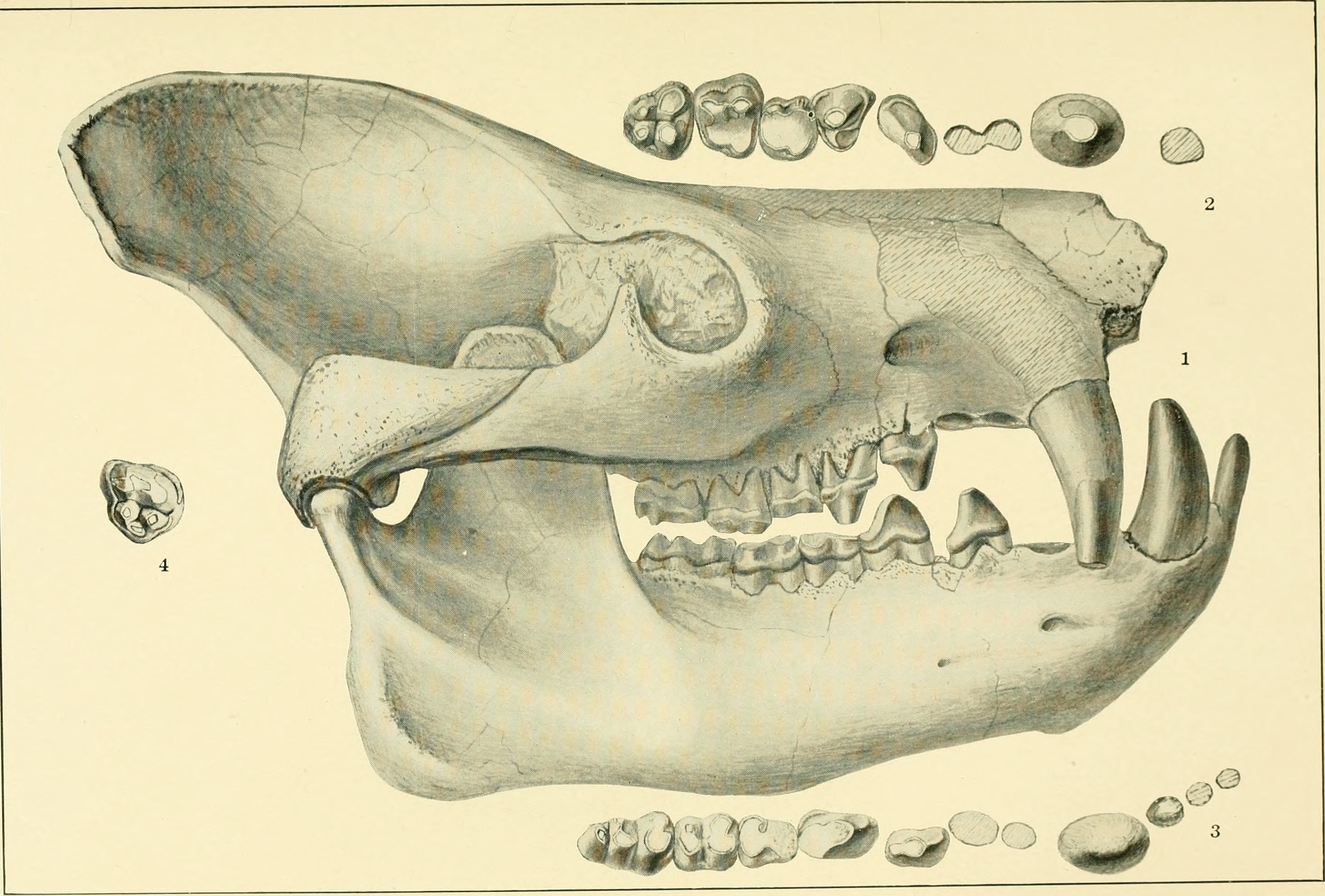 Achaenodon Title: Annals of the Carnegie Museum Year: 1919 (1910s) Authors: Carnegie Museum; Carnegie Museum of Natural History Subjects: Carnegie Museum; Carnegie Museum of Natural History; Natural history Publisher: [Pittsburgh : Published by authority of the Board of Trustees of the Carnegie Institute] Text Appearing Before Image: o Text Appearing After Image: '